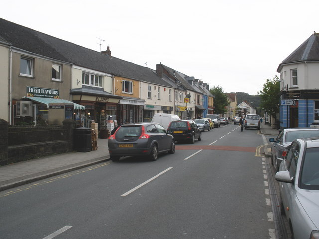 St John's Street, Whitland